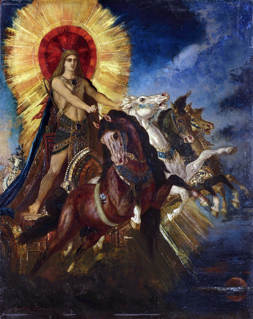 The Chariot of Apollo or Phoebus Apollo by Gustave Moreau